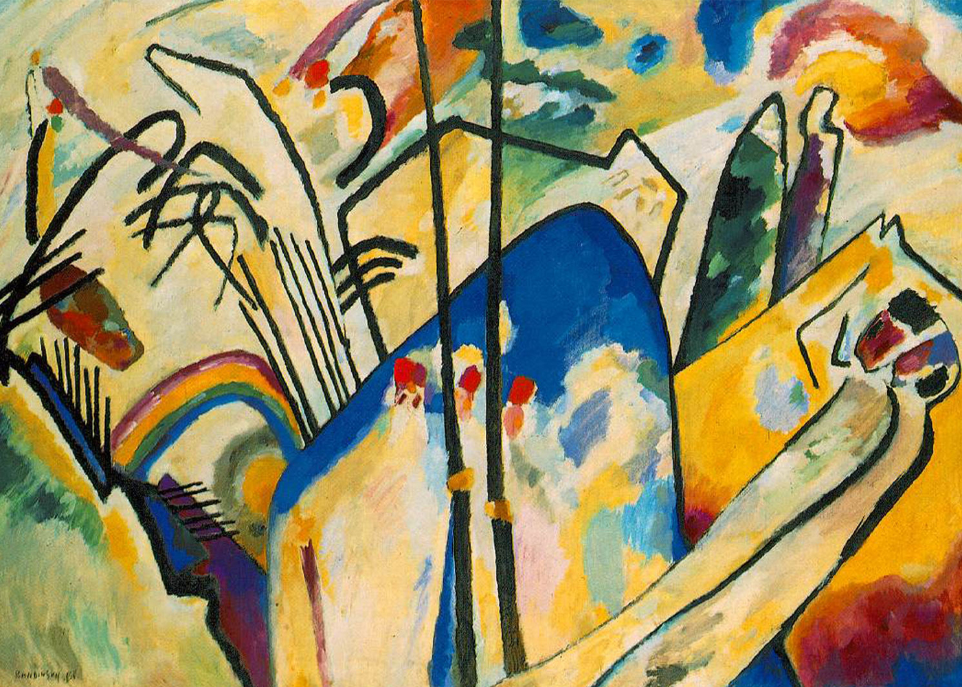 Vasily Kandinsky - Composition No 4, 1911, Kunstsammlung Nordrhein-Westfallen, Dusseldorf